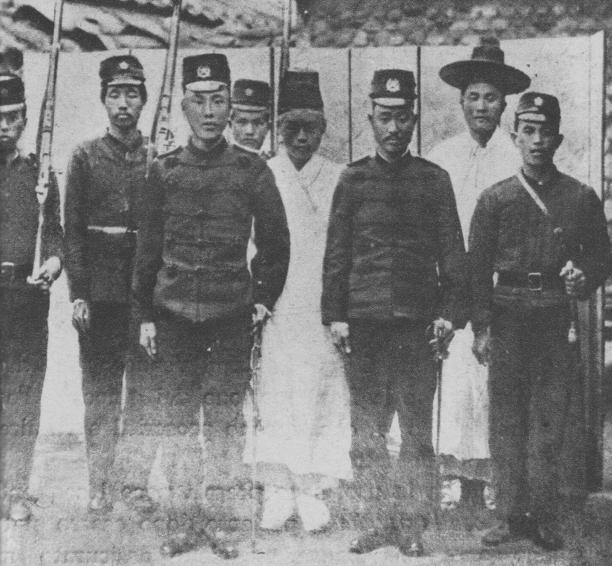 Troopers of Korean Empire Army